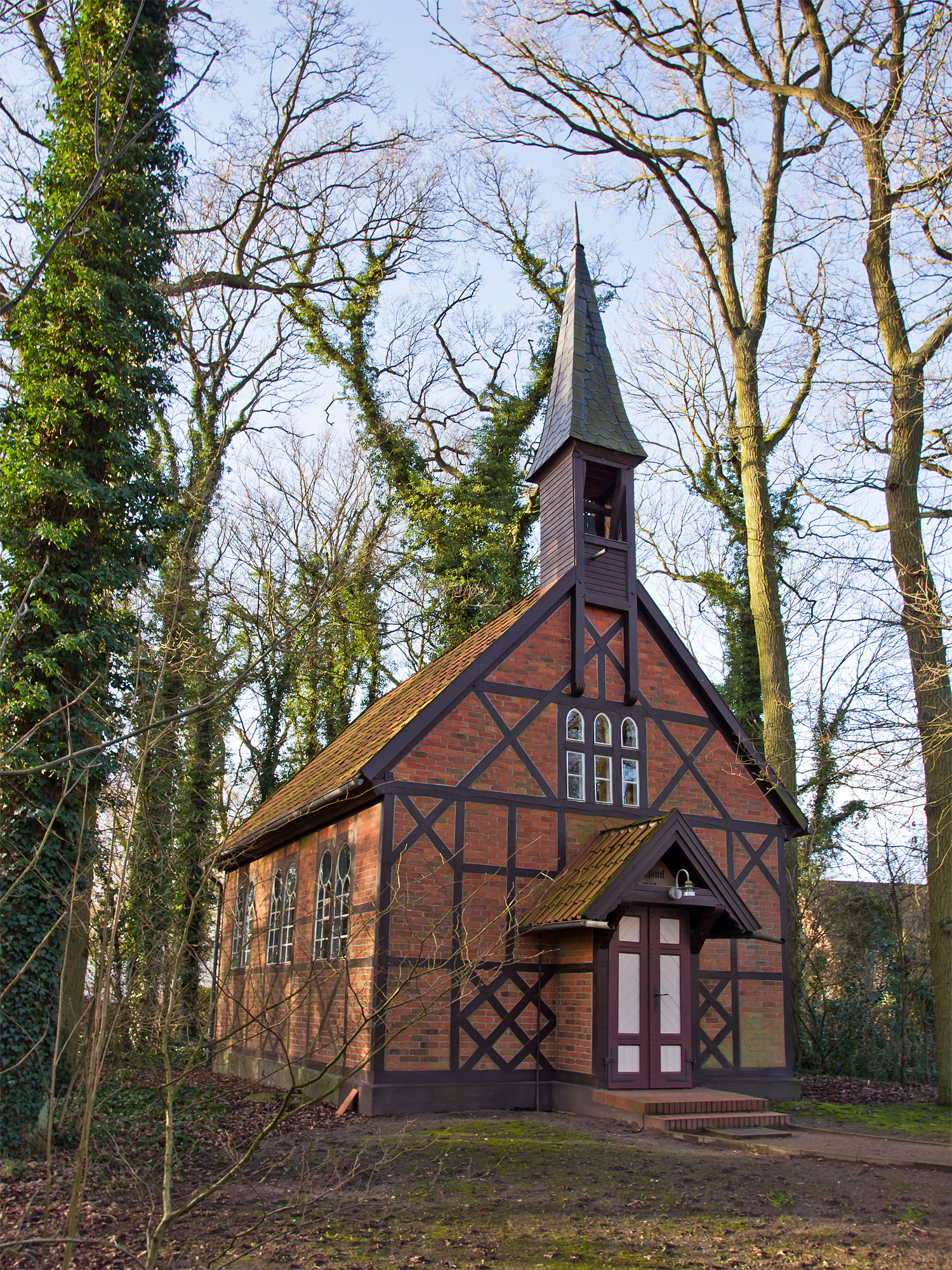 Chapel of the small village Lübeln (district Lüchow-Dannenberg, northern Germany).